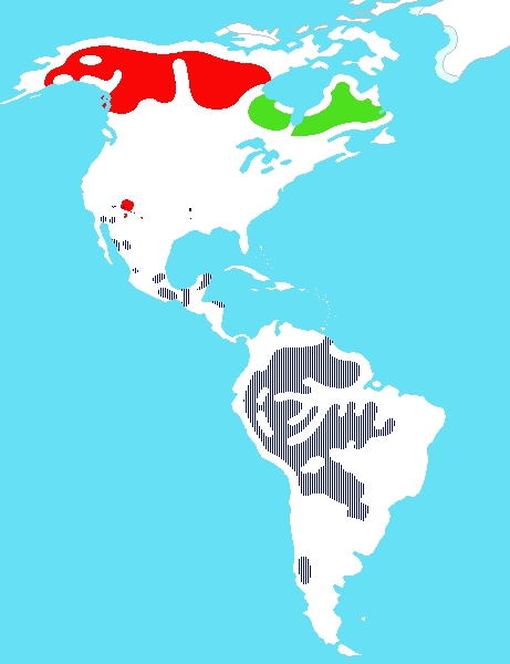 Map of indigenous languages of Americe